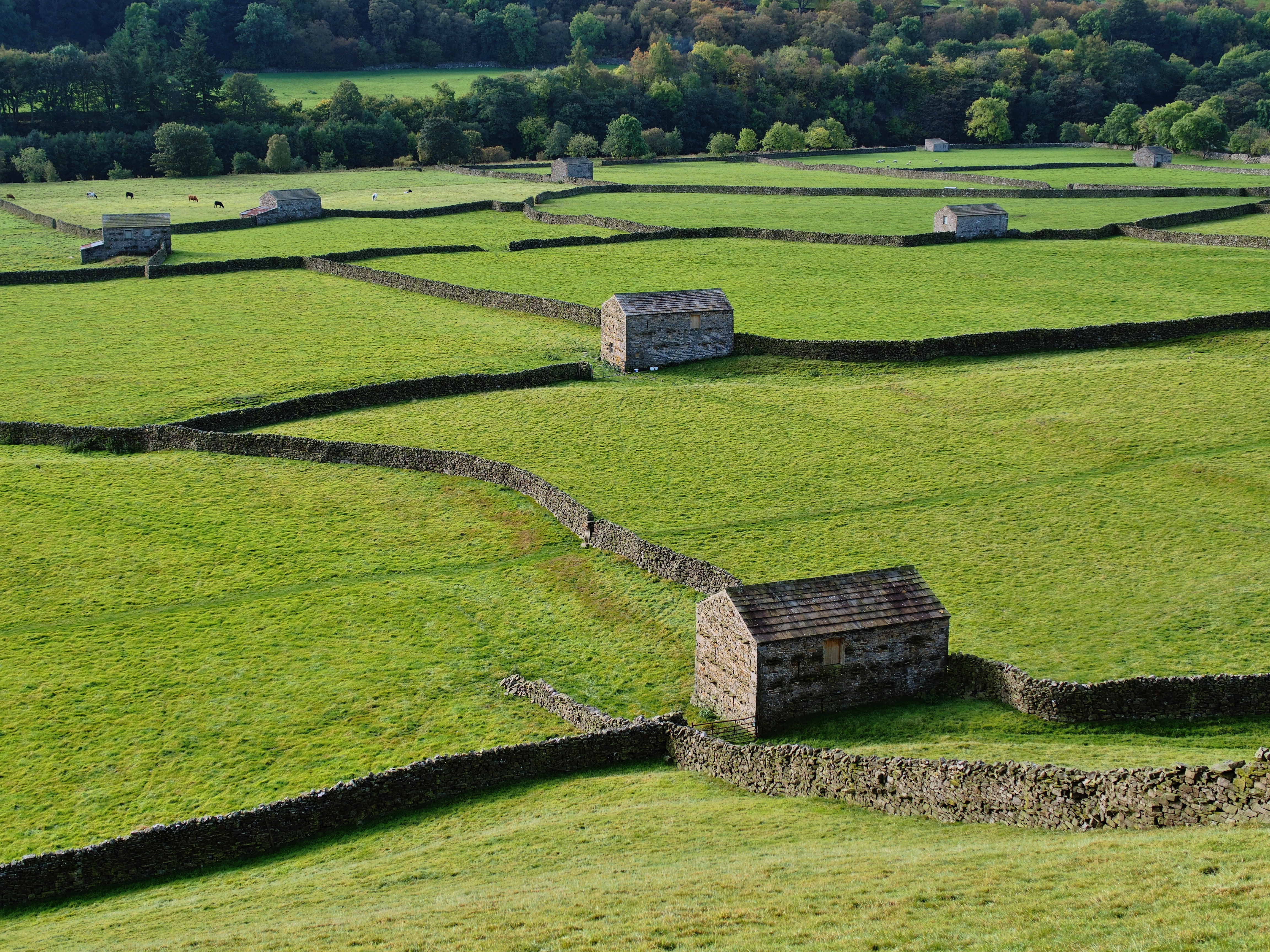 Fields and drystone walls in Swaledale near Gunnerside